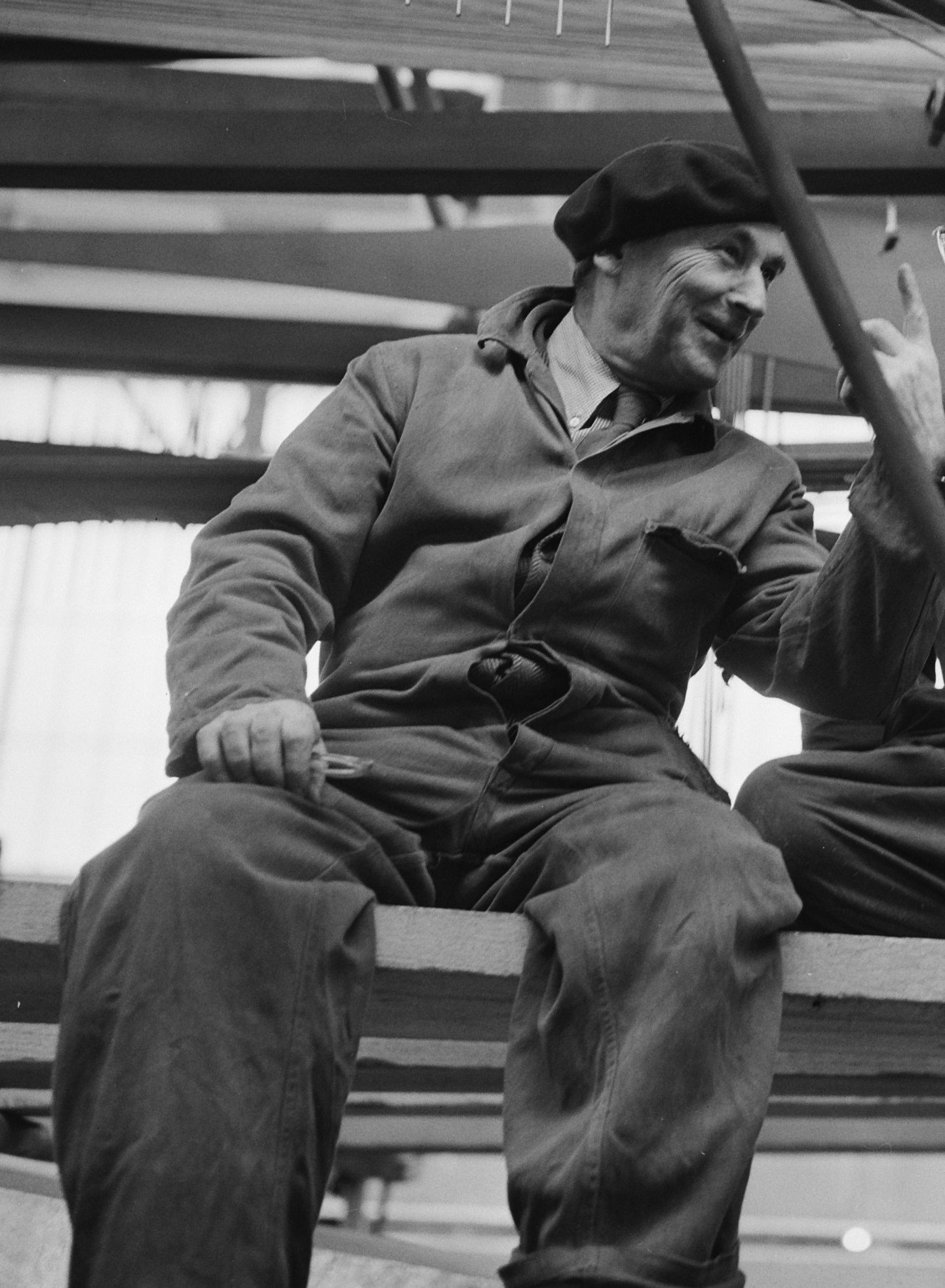 Naum Gabo at factory Hollandia, Krimpen aan den IJssel (the Netherlands) sitting on his artwork Flower and Bee (later placed near De Bijenkorf Rotterdam